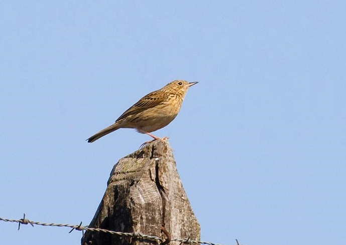 Anthus hellmayri in Campos do Jordão, Sao Paulo, Brazil